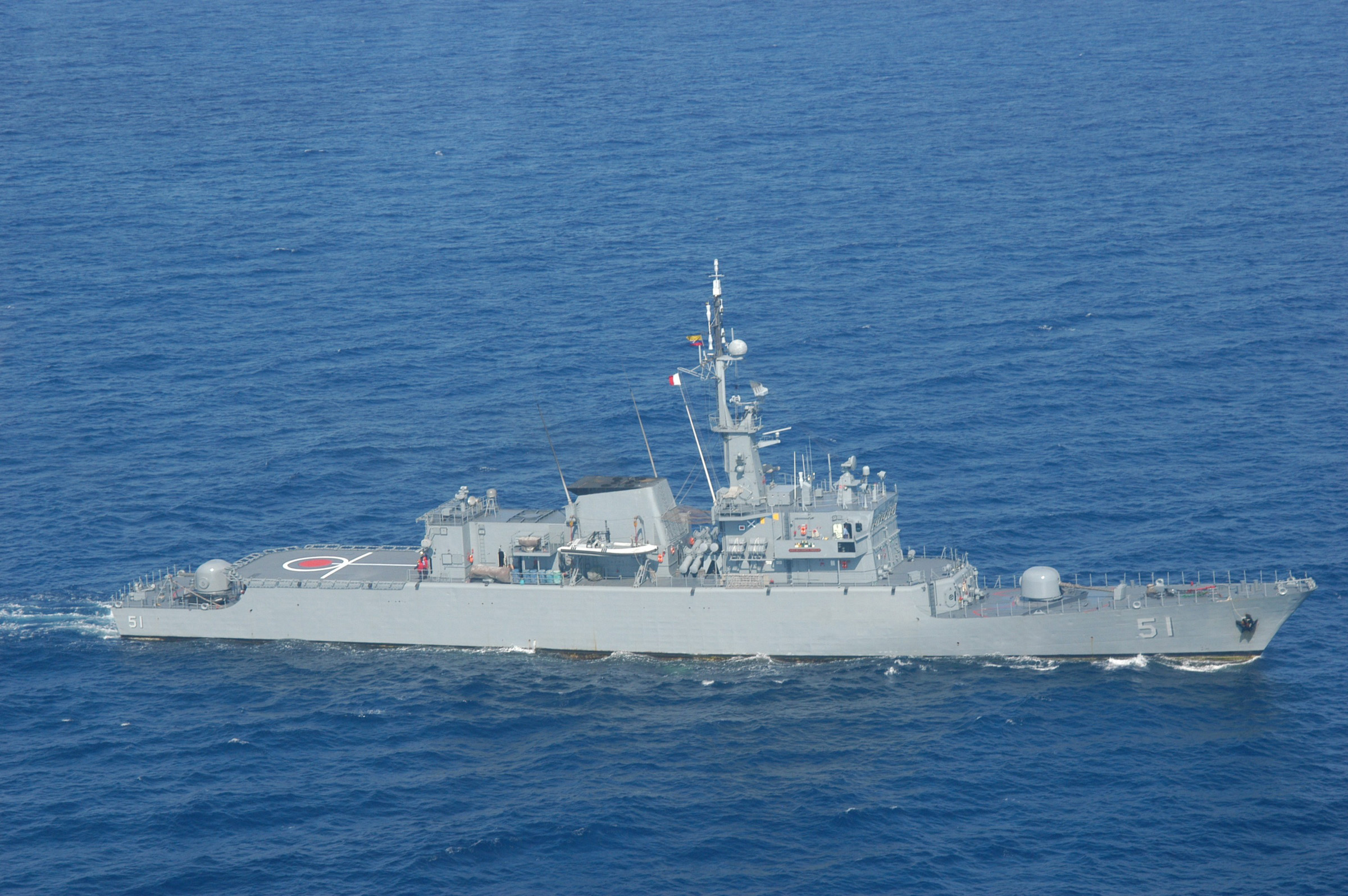 The Colombian ship ARC Almirante Padilla (FM 51) patrols the northern approach of the Panama Canal in search of a "suspect" vessel as part of PANAMAX 2004 scenario.